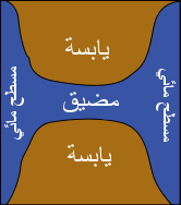 Simplified diagram of a strait, created by Derrick Coetzee in Adobe Illustrator and Photoshop. For strait page; idea is from isthmus page.